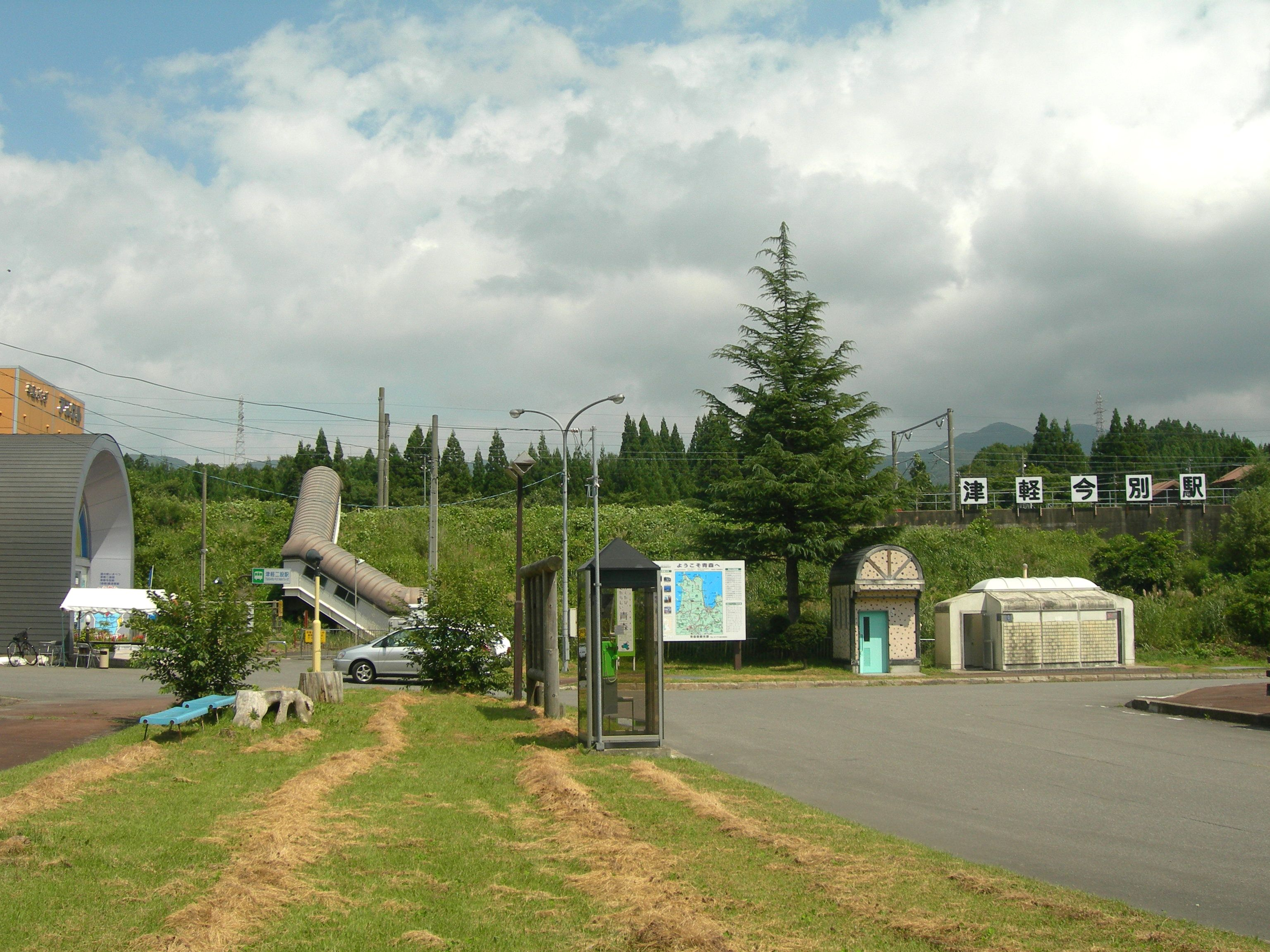 Michinoeki Imabetsu car park